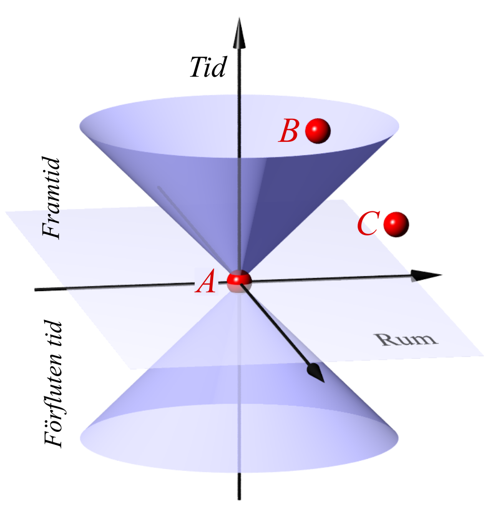 Light cone